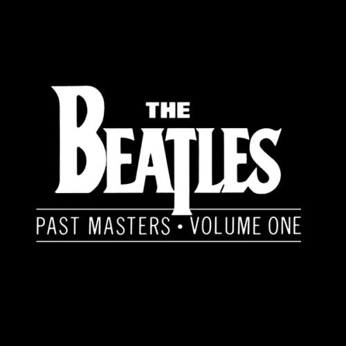 Past Masters 1 album cover of British band The Beatles.